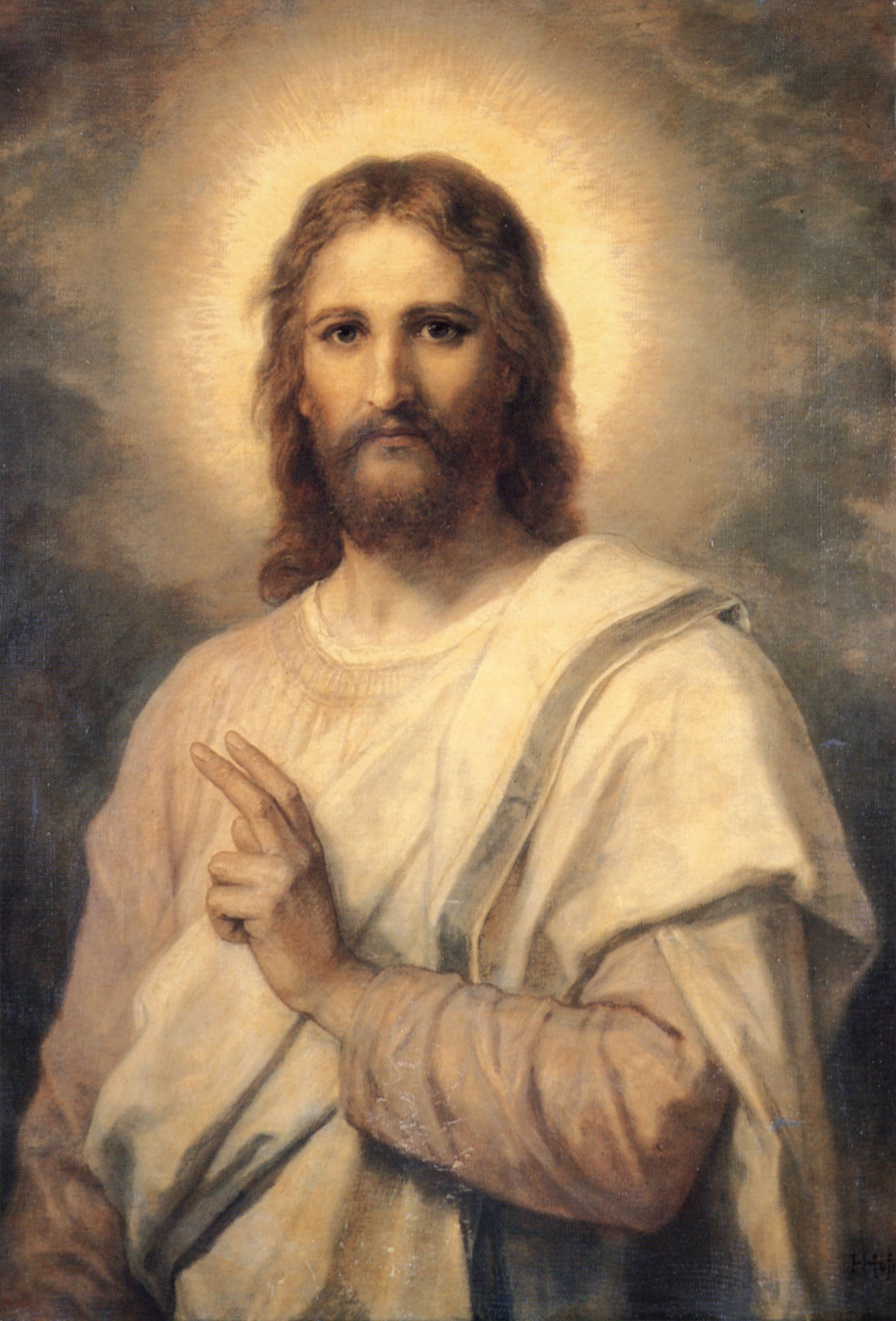 "Figure of Christ." This is a painting of Jesus Christ, created by German painter Heinrich Hofmann in the 1880s.